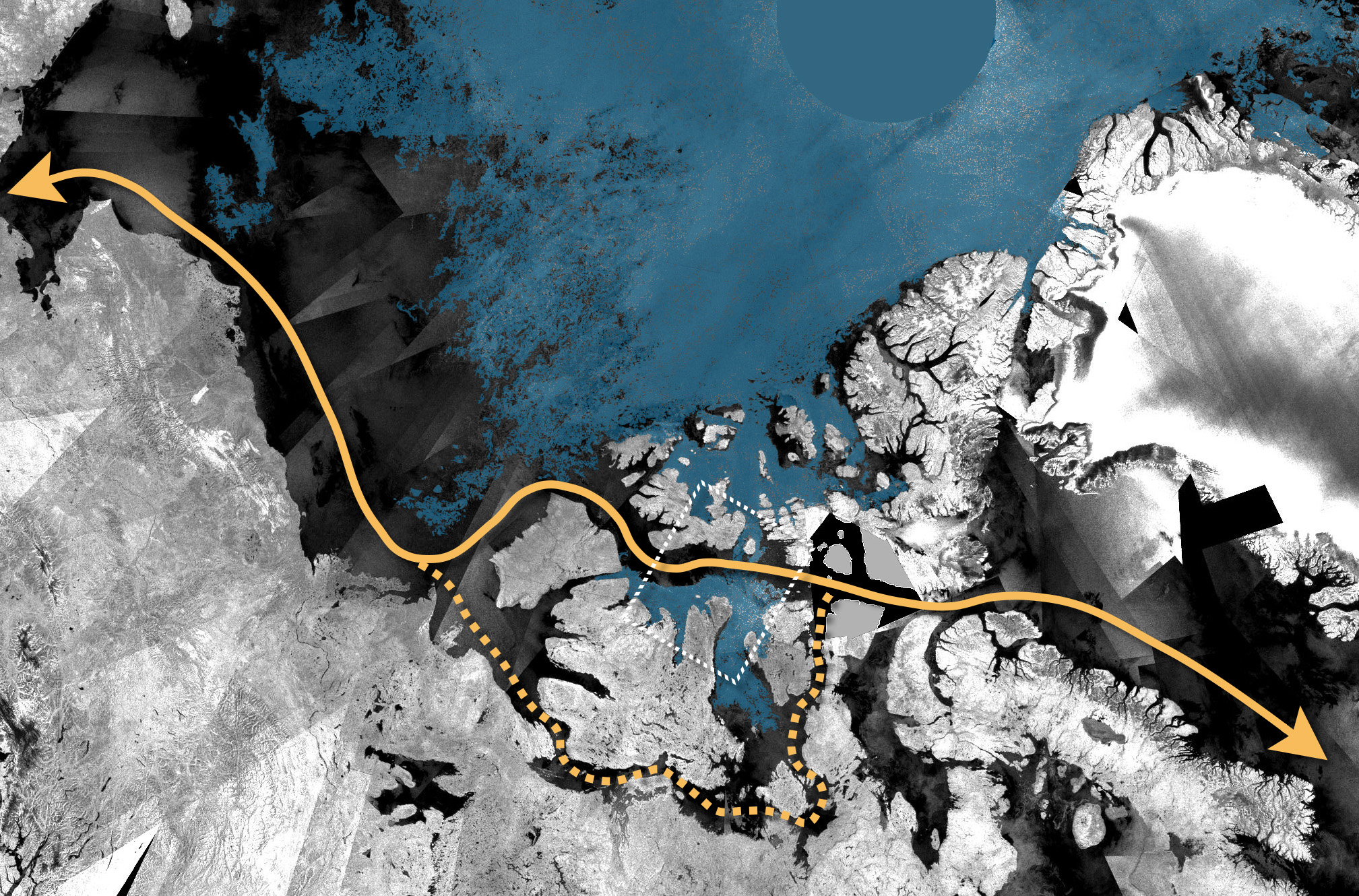 Envisat ASAR mosaic from mid-August 2008 showing an almost ice-free Northwest Passage. The direct route through the Northwest Passage is highlighted in the picture by an orange line. The orange dotted line shows the indirect route, called the Amundsen Northwest Passage, which has been passable for almost a month.